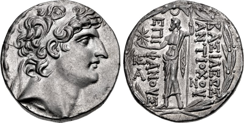 from the website: CNG 109, Lot: 334. Estimate $500. Sold for $1000. This amount does not include the buyer’s fee. SELEUKID EMPIRE. Antiochos VIII Epiphanes (Grypos). 121/0-97/6 BC. AR Tetradrachm (27mm, 16.35 g, 12h). Antioch on the Orontes mint. First reign at Antioch, 121/0-113 BC. Diademed head right within fillet border / Zeus Ouranios standing left, holding star and scepter; to outer left, IE above A; small N to inner right; all within wreath. SC 2298.2e; HGC 9, 1197e. EF. Well centered. From the Gasvoda Collection. Ex New York Sale XXXIV (6 January 2015), lot 187.